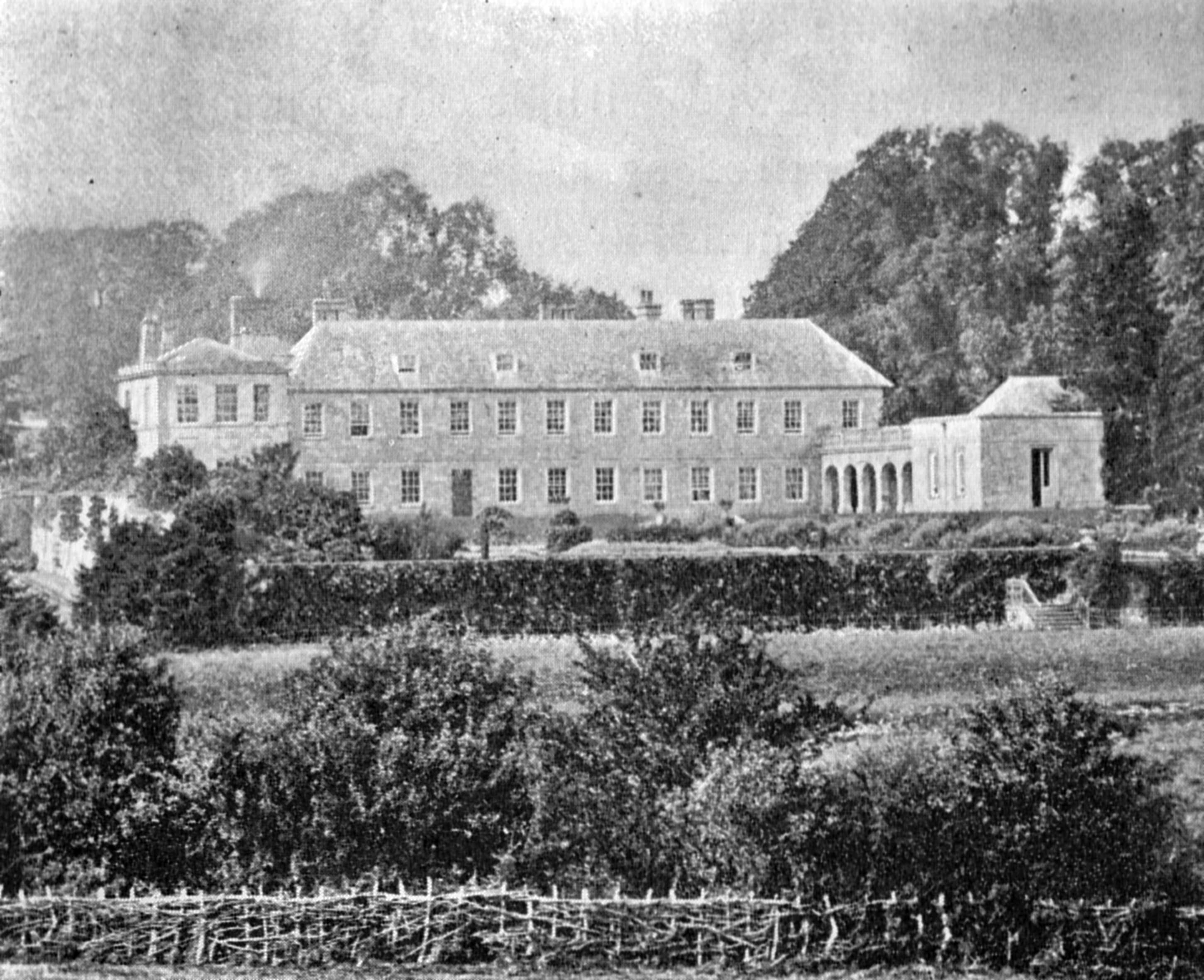 Photograph of Bulwick Park, Northamptonshire, England. Family home of George Tryon.